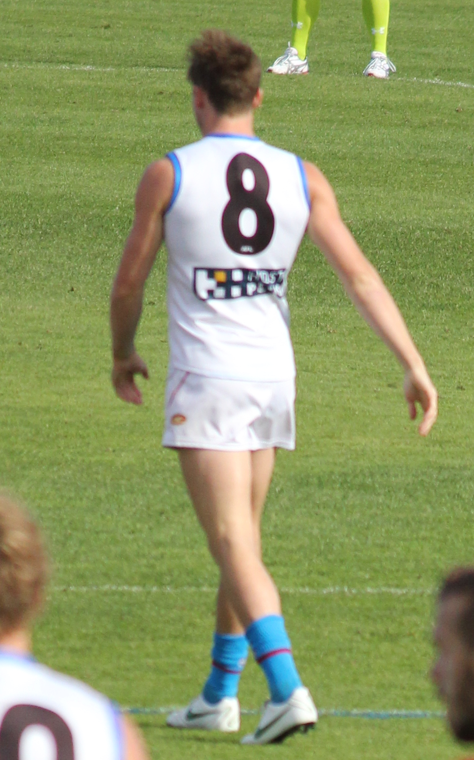 2012 Round 7. GWS Giants vs Gold Coast Suns. Manuka Oval.